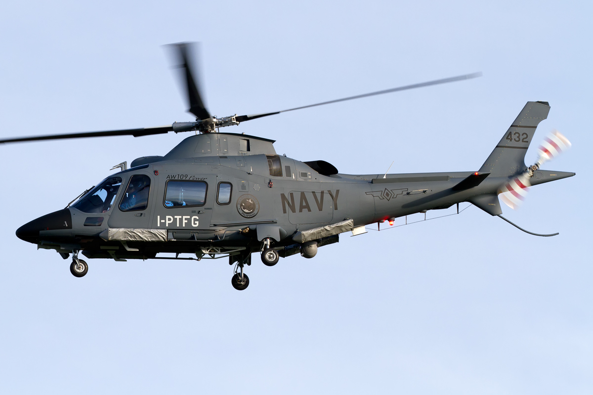 AgustaWestland AW-109E Power [I-PTFG / 432 (cn 11810)] on testing flight. First of the two heli ordered by Philippine Navy.